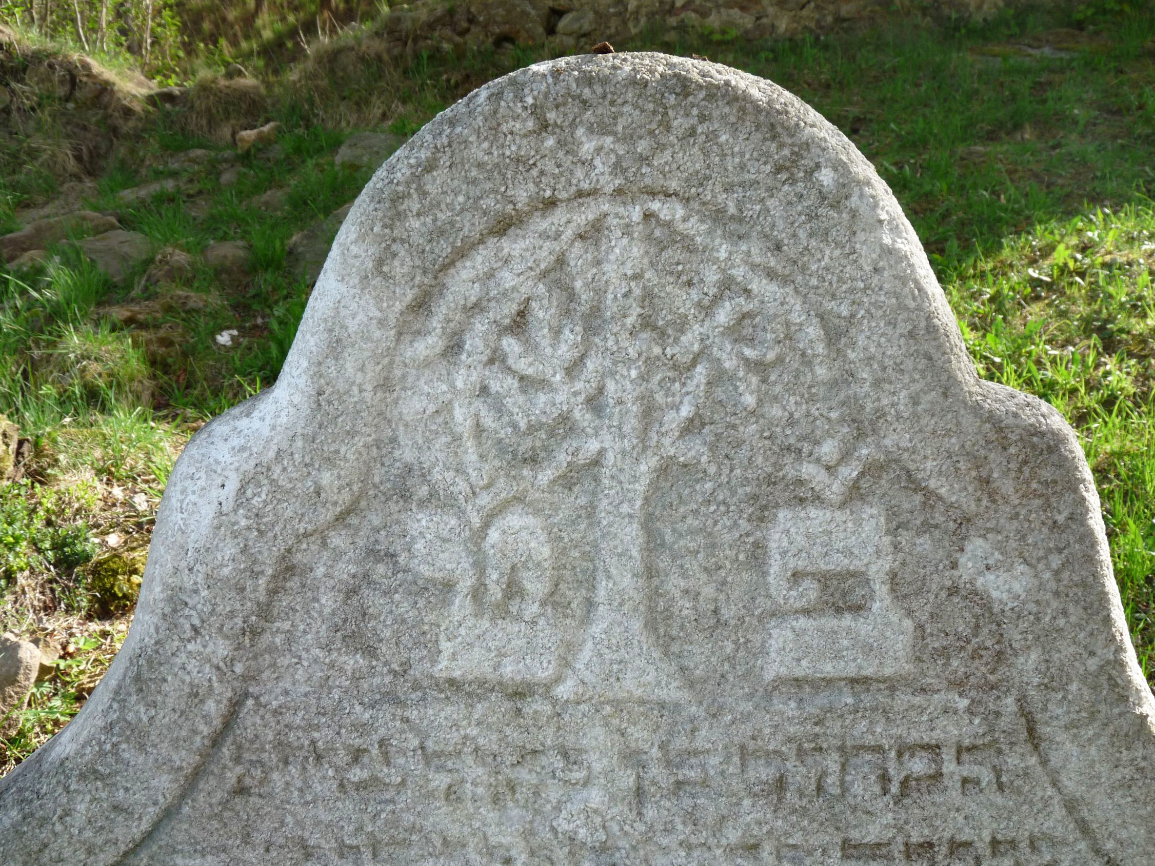 Jewish cemetery in Kolinec, Klatovy District, Czech Republic